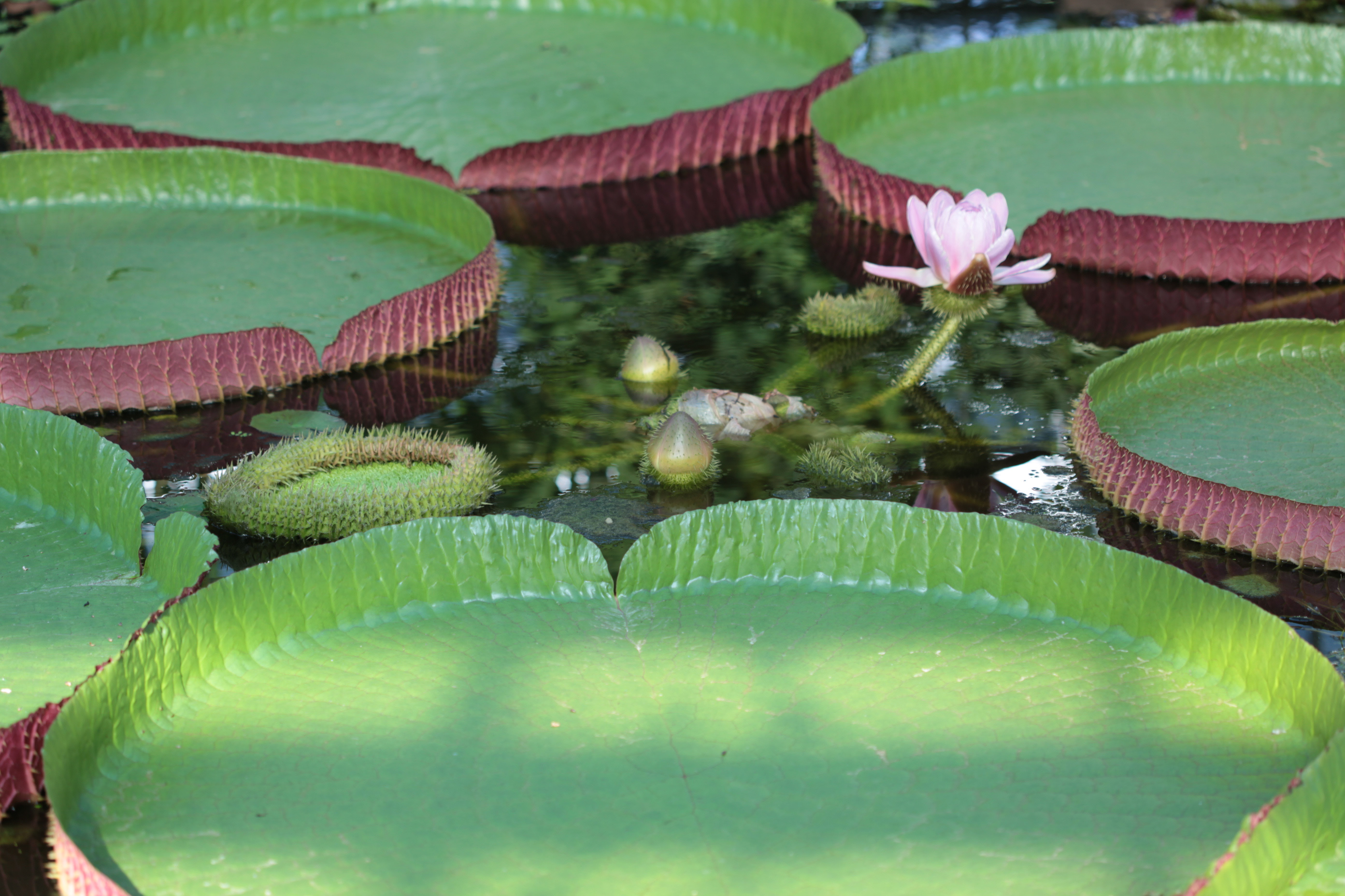 Victoria amazonica, general view (Kobe Kachoen)